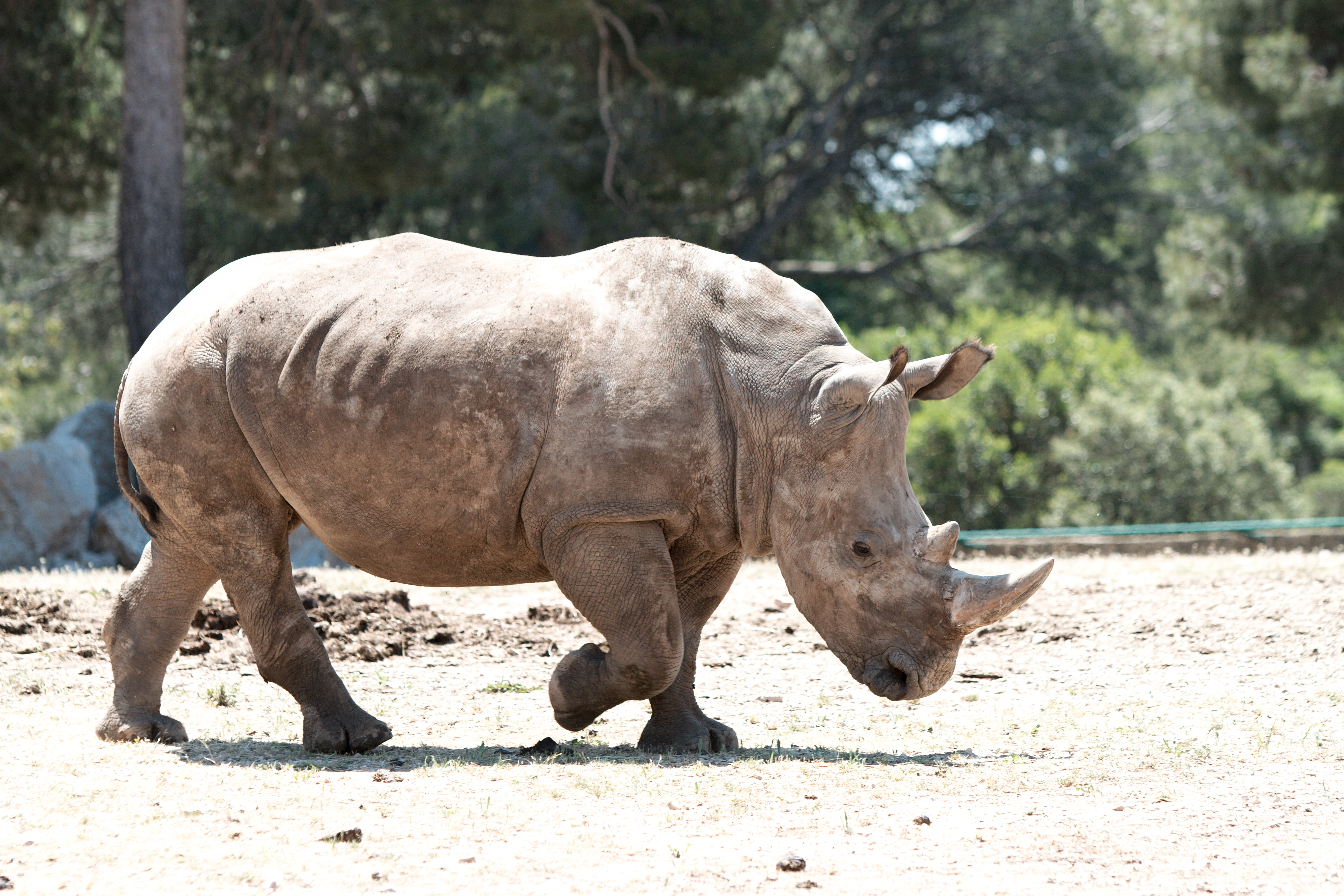 White Rhinoceros (Ceratotherium simum) at La Barben's zoo (France)